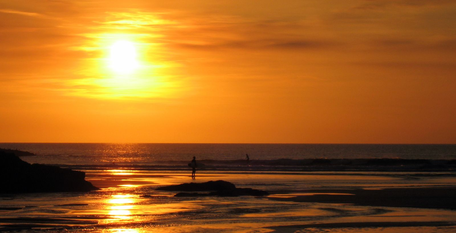 Mawgan Porth sunset surf, Cornwall, UK